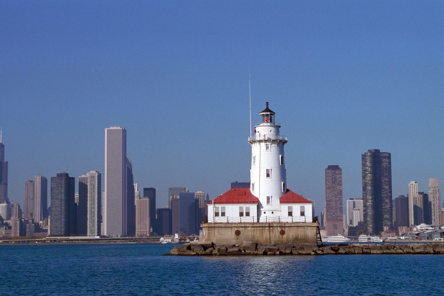 Chicago Harbor Light in Chicago, Illinois, USA